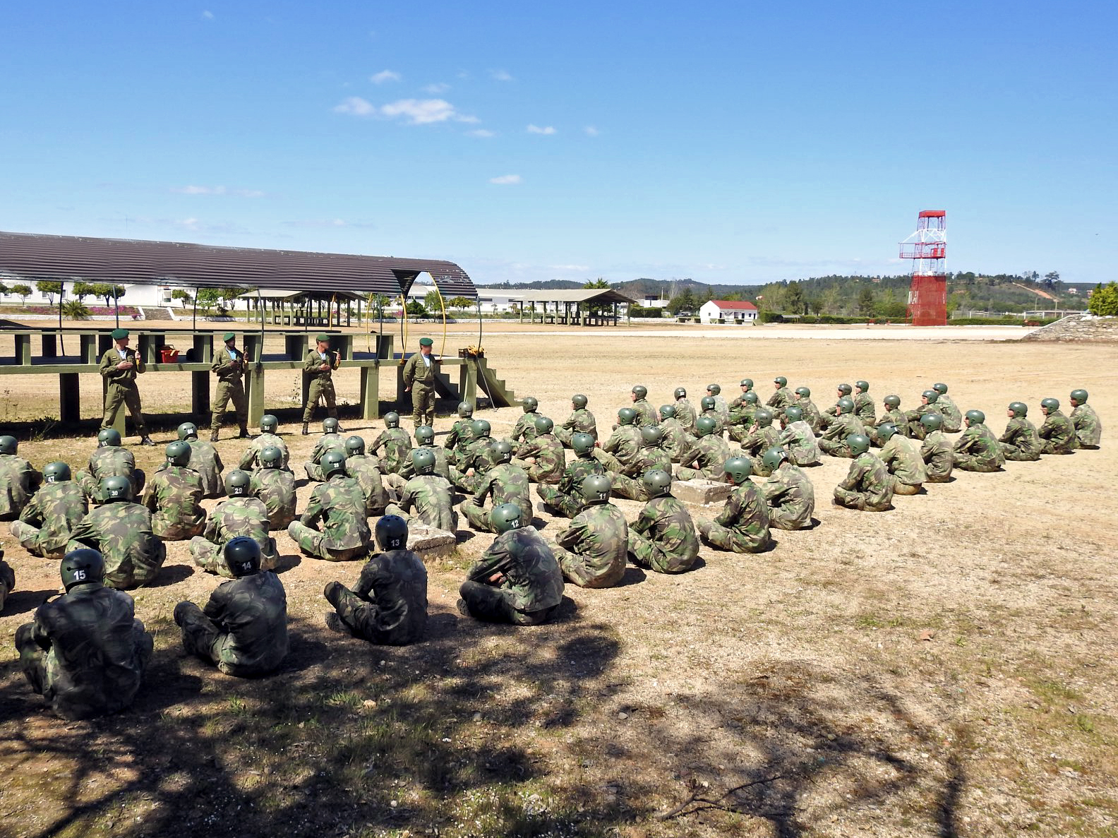 Paratrooper Training in Portugal